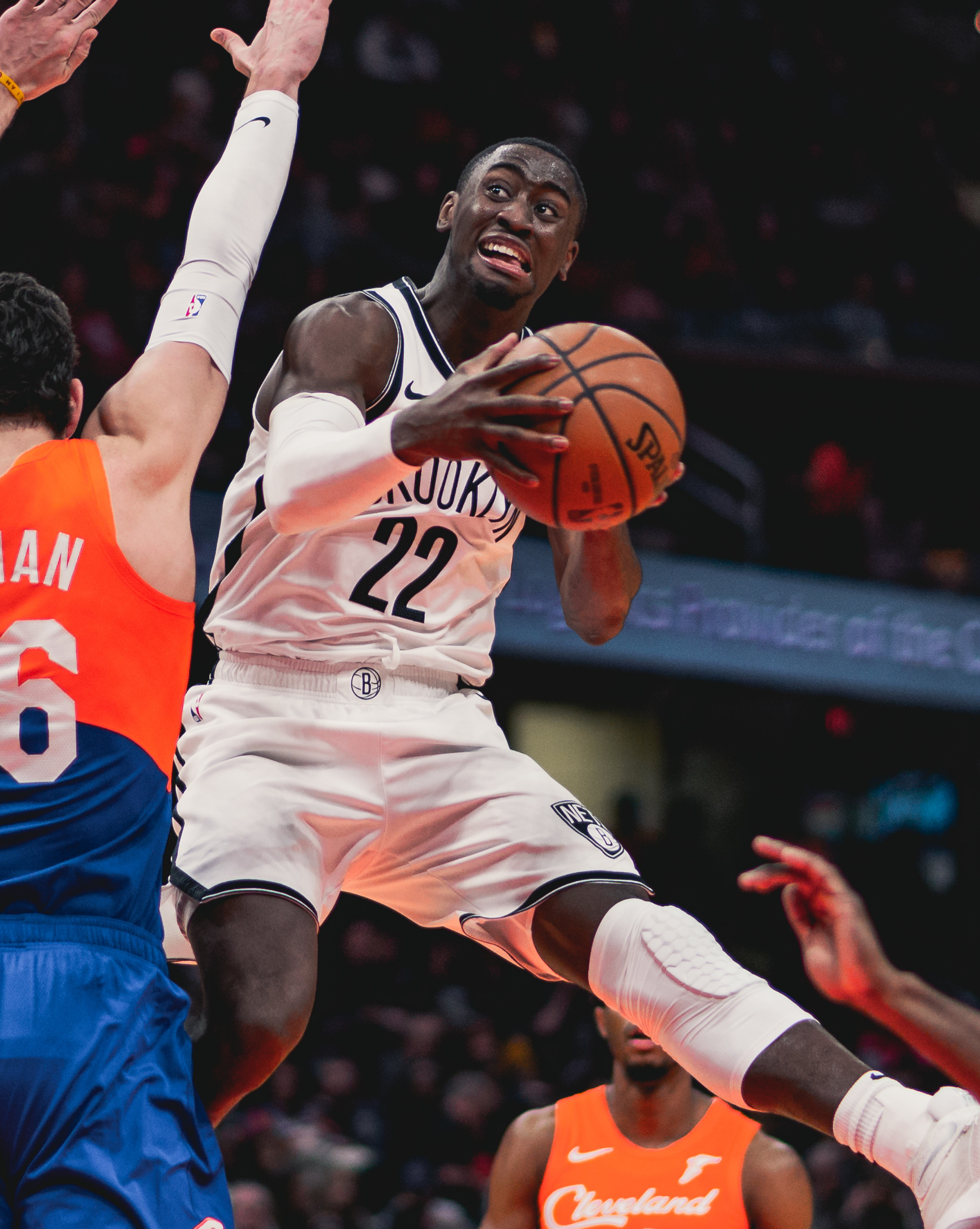 Cleveland Cavaliers vs. Brooklyn Nets